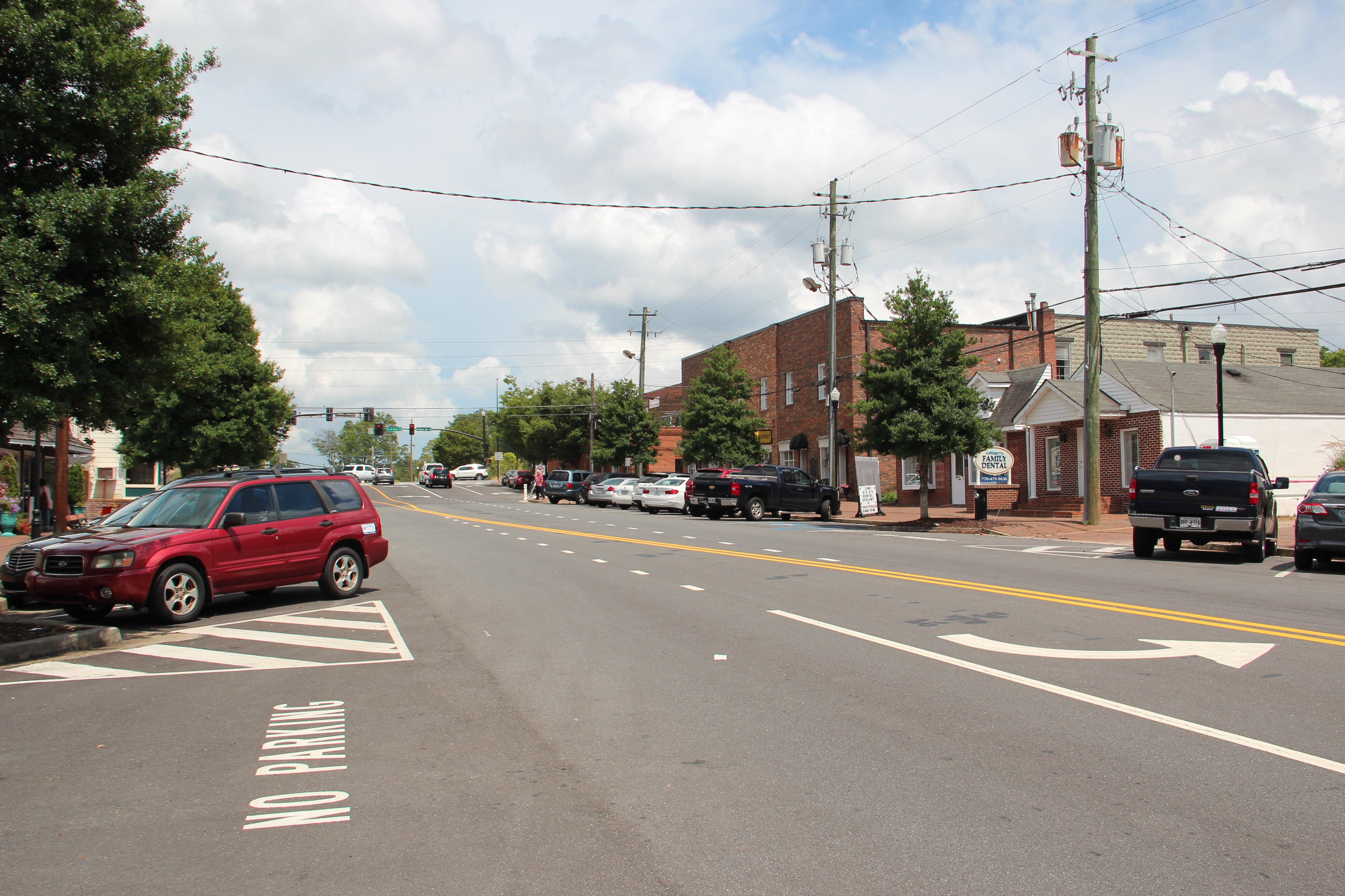 Downtown Alpharetta, Georgia